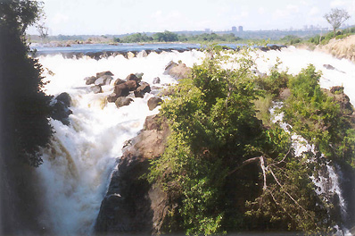 Llovizna Falls, Venezuela Photo' by Wikityke